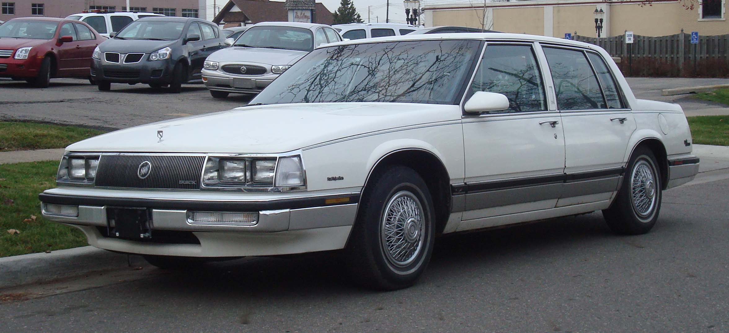 1985-1986 Buick Electra